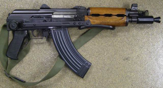 M92 with Stock Folded